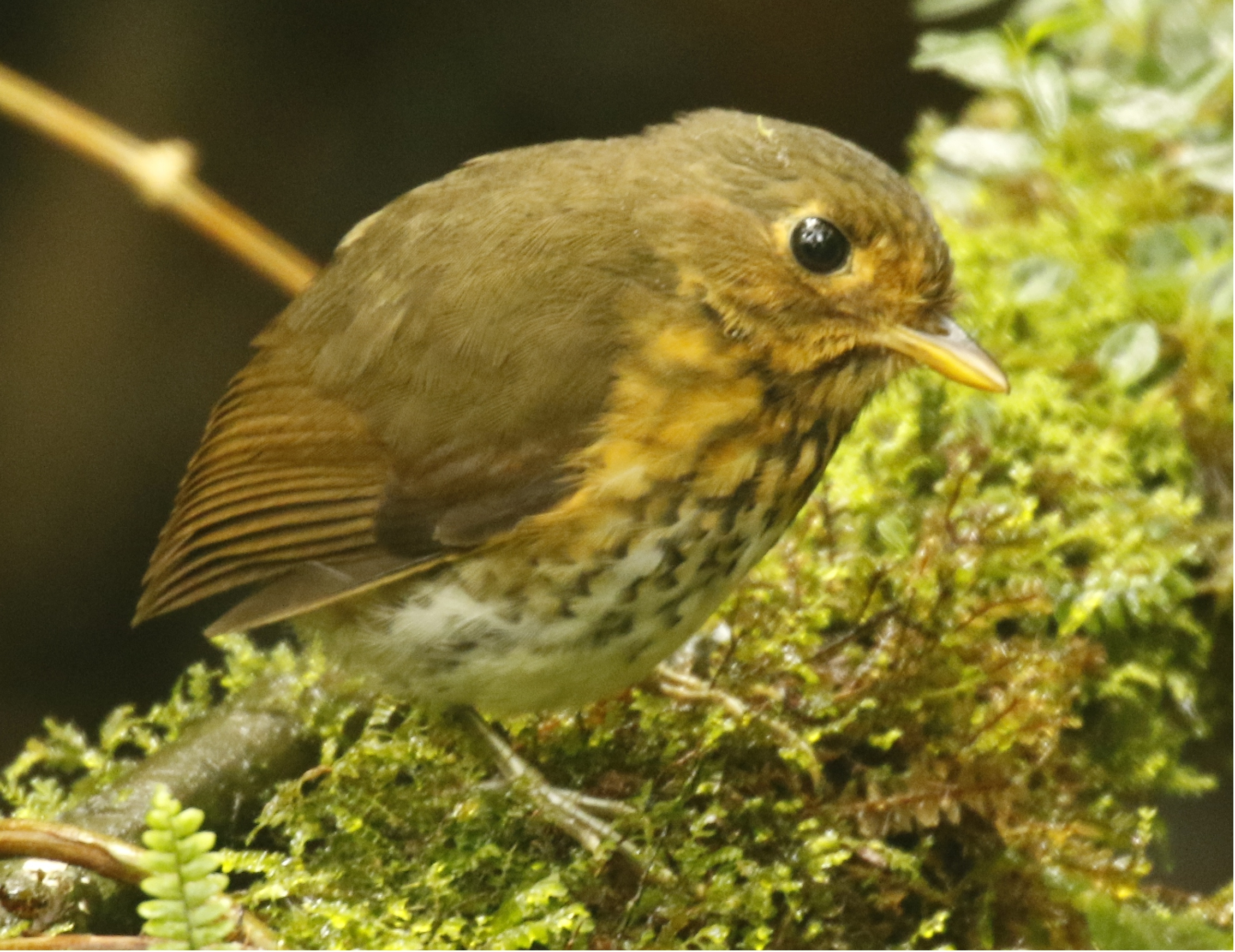 Wildsumaco Lodge - Ecuador